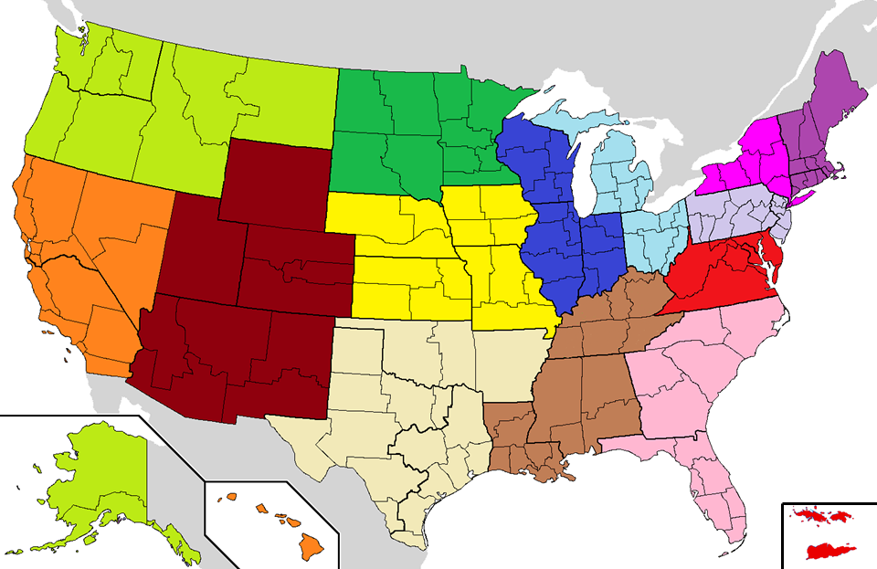 The Catholic dioceses within their respective regions in the United States Conference of Catholic Bishops.